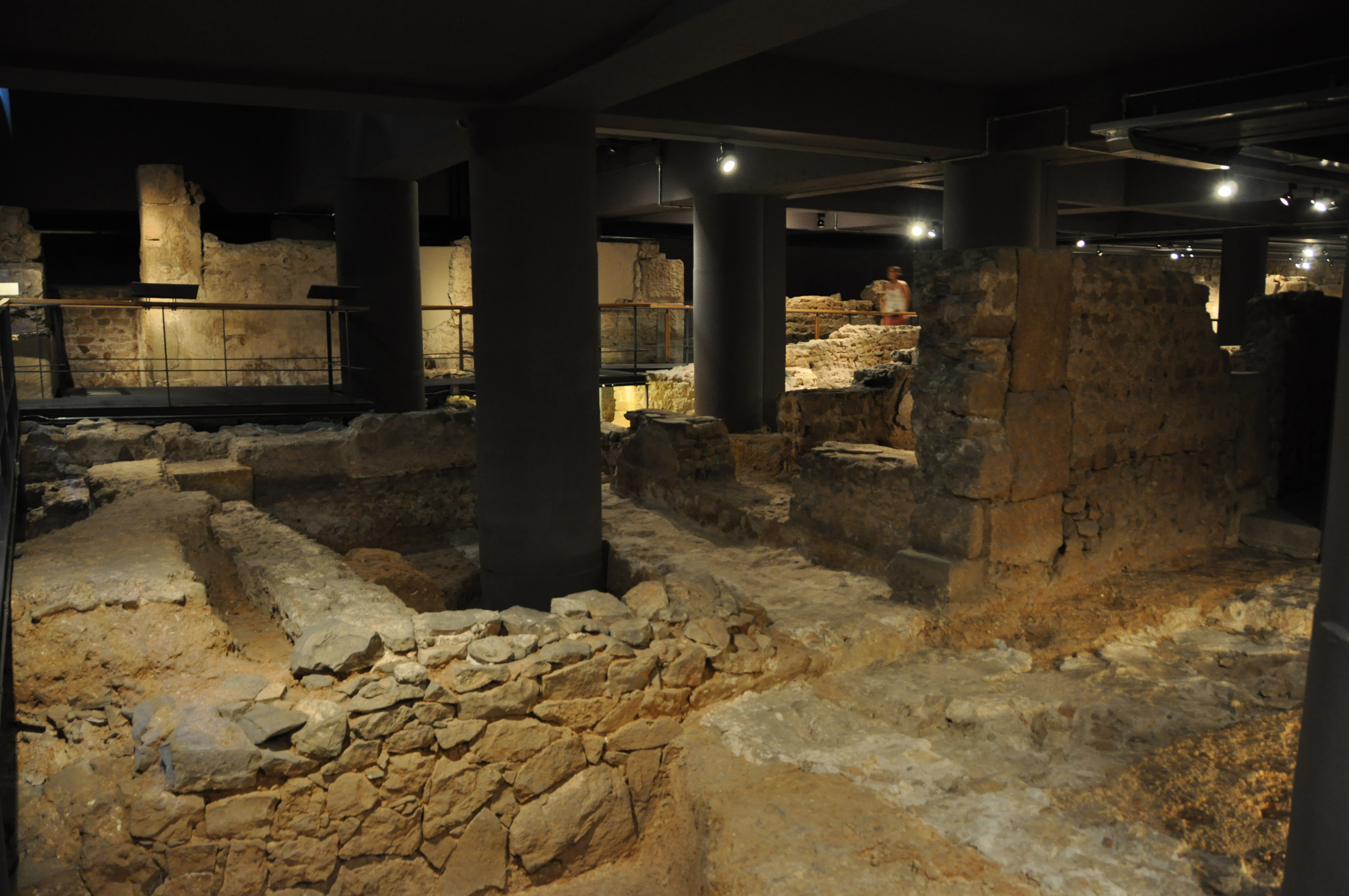 MUHBA Barcelona arcaeological underground roman dying factory